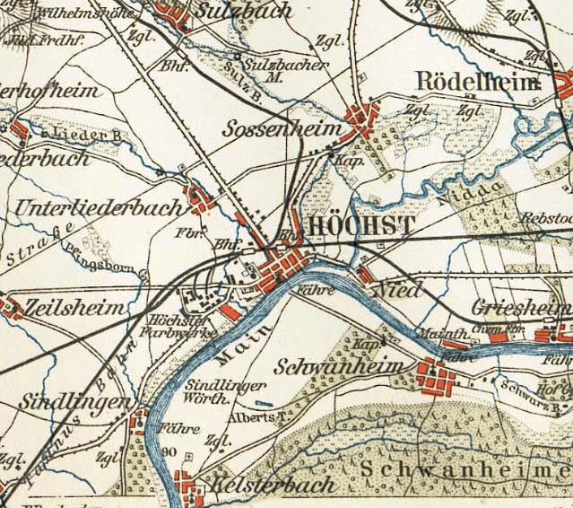 Frankfurt region, 1893: Höchst, fast-growing industrial suburb of Frankfurt and a regional railway hub. Note the intersection of two totally straight roads, dating back to pre-industrial time.